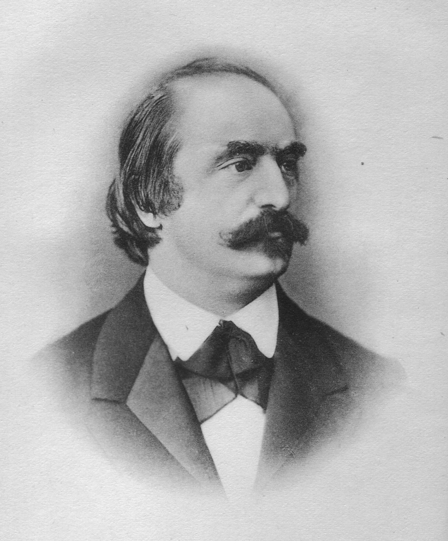 Eduard Hanslick, famous Vienna music critic.